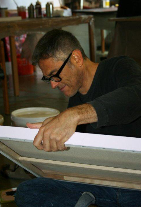 photo portrait of Ralph Brancaccio taken by photographer Wolfgang Brenner in Essen, Germany - Other information This is a portrait of artist Ralph Brancaccio taken by Wolfgang Brenner. His website is